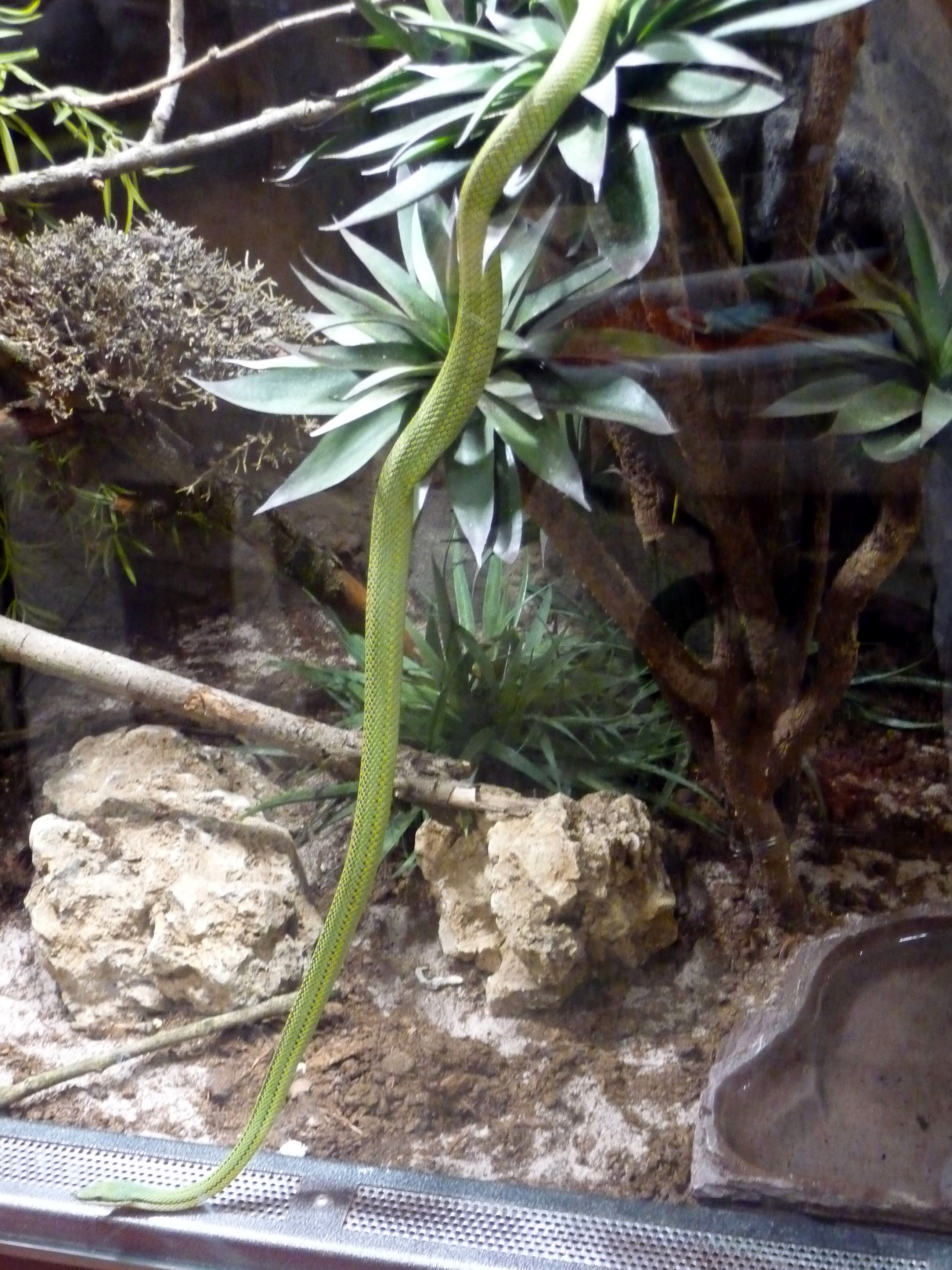 Philodryas baroni, Terra Fauna exibition in shopping center Vaňkovka in Brno